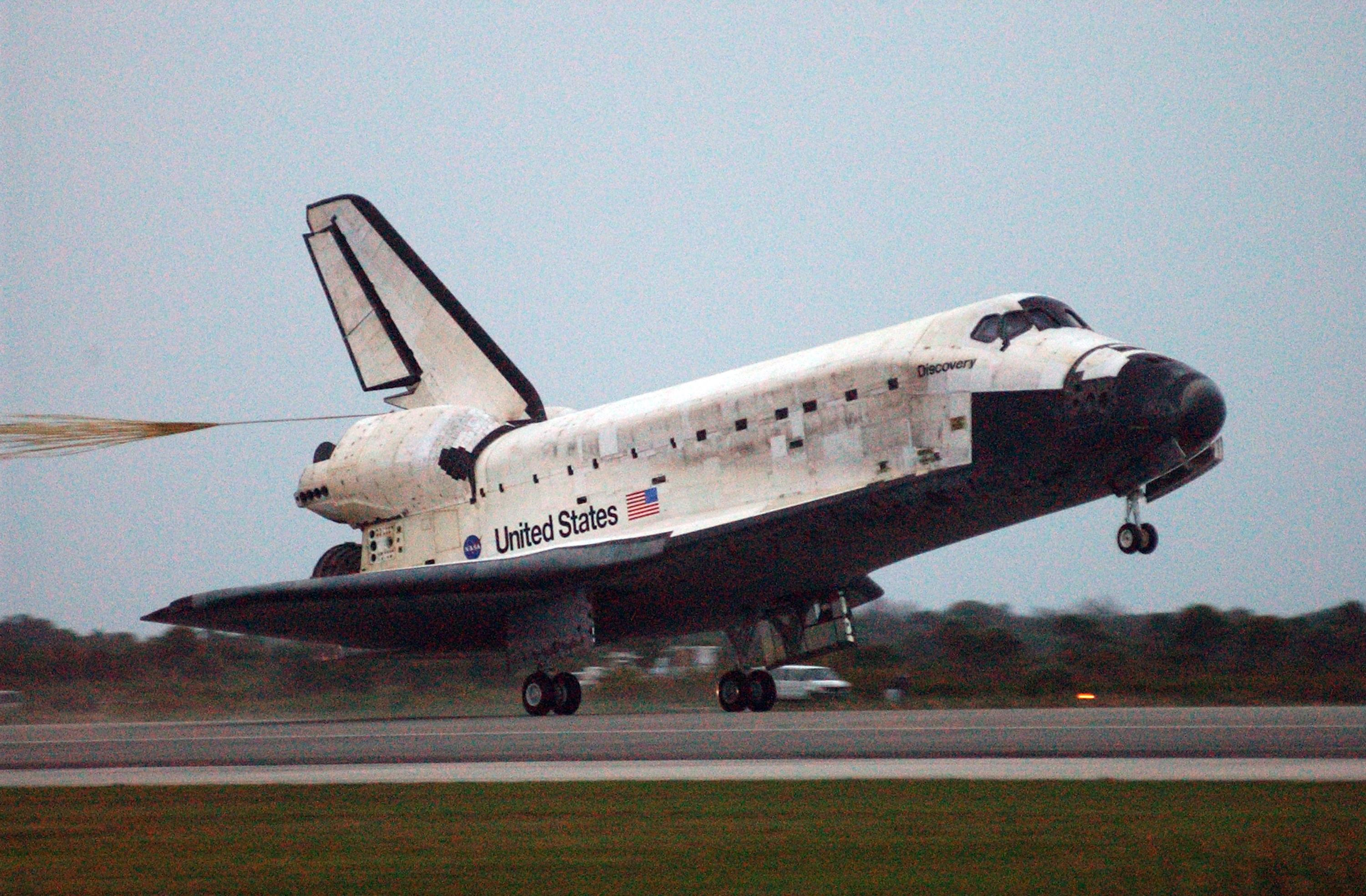 NASA PHOTO NO: KSC-06PD-2861 KENNEDY SPACE CENTER, FLA. -- Space Shuttle Discovery nears touchdown on Runway 15 at NASA Kennedy Space Center's Shuttle Landing Facility as the sun sets on the shortest day of the year, concluding mission STS-116. Aboard are Commander Mark Polansky, Pilot William Oefelein, and Mission Specialists Robert Curbeam, Joan Higginbotham, Nicholas Patrick and Christer Fuglesang, who represents the European Space Agency, as well as Thomas Reiter, who is returning from a 6-month stay on the International Space Station. During the mission, three spacewalks attached the P5 integrated truss structure to the station, and completed the rewiring of the orbiting laboratory's power system. A fourth spacewalk retracted a stubborn solar array. Main gear touchdown was at 5:32 p.m. EST. Nose gear touchdown was at 5:32:12 p.m. and wheel stop was at 5:32:52 p.m. At touchdown -- nominally about 2,500 ft. beyond the runway threshold -- the orbiter is traveling at a speed ranging from 213 to 226 mph. Discovery traveled 5,330,000 miles, landing on orbit 204. Mission elapsed time was 12 days, 20 hours, 44 minutes and 16 seconds. This is the 64th landing at KSC.